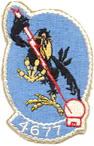 Emblem of the 4677th Defense System Evaluation Squadron